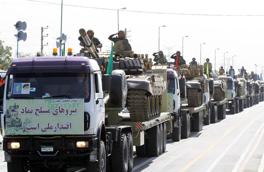 Army of the Guardians of the Islamic Revolution exhibits it's main battle tanks during Sacred Defence Week parade.